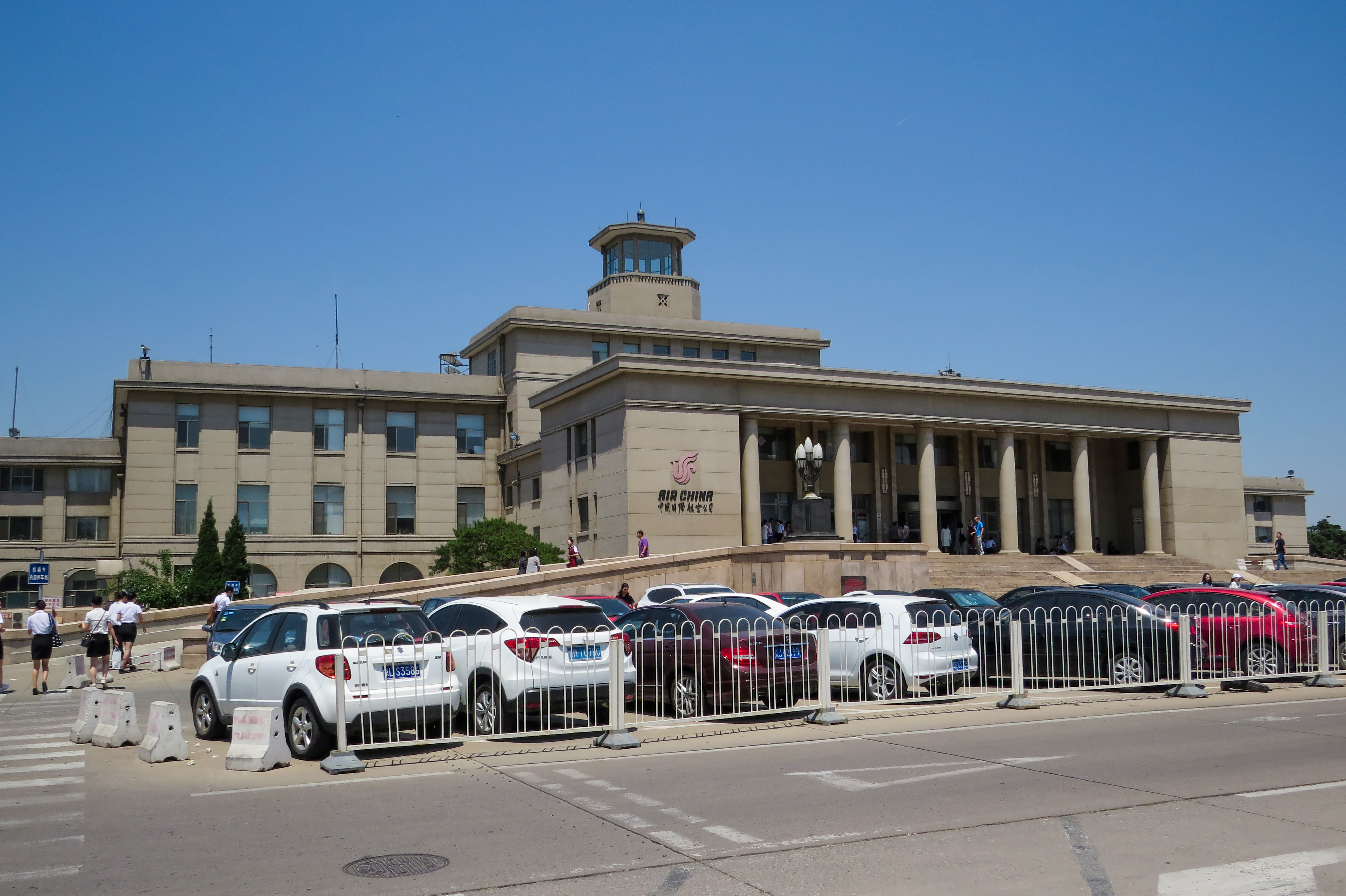 This old terminal is now serving as the cabin service department of Air China. Some people call it "Terminal 0".